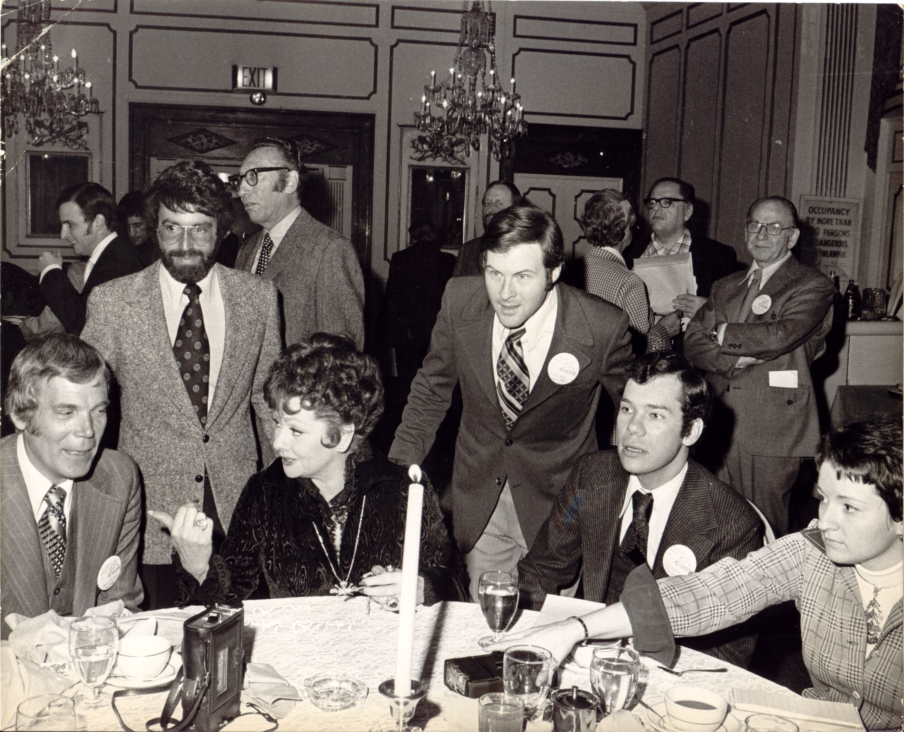 Jack Curran is interviewing Lucille Ball for local Montreal TV talk show "In Town". This was taken at an event.